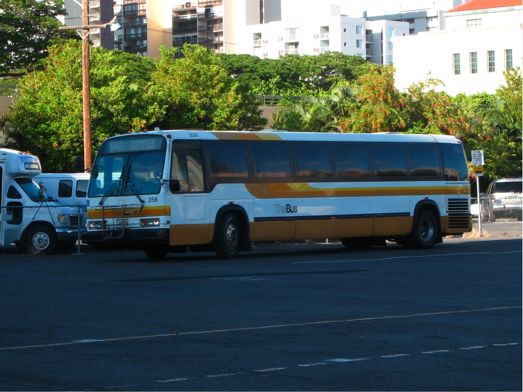 Photograph of a TMC RTS-08(?) taken at Alapaʻi Transit Center in Honolulu, Hawaii, United States.